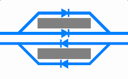 Diagram of railway track layout at straions.